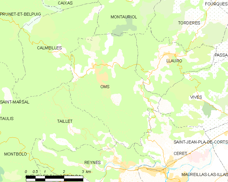 Map of French municipality